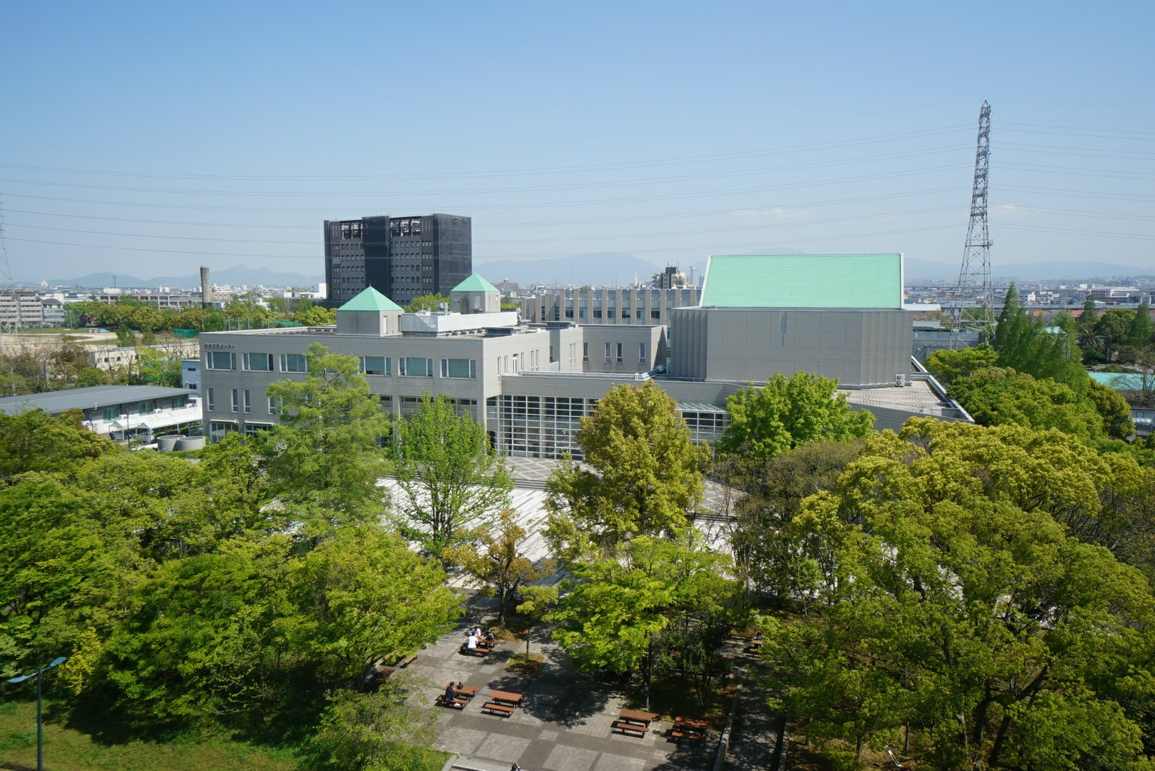 OPU_Uhole